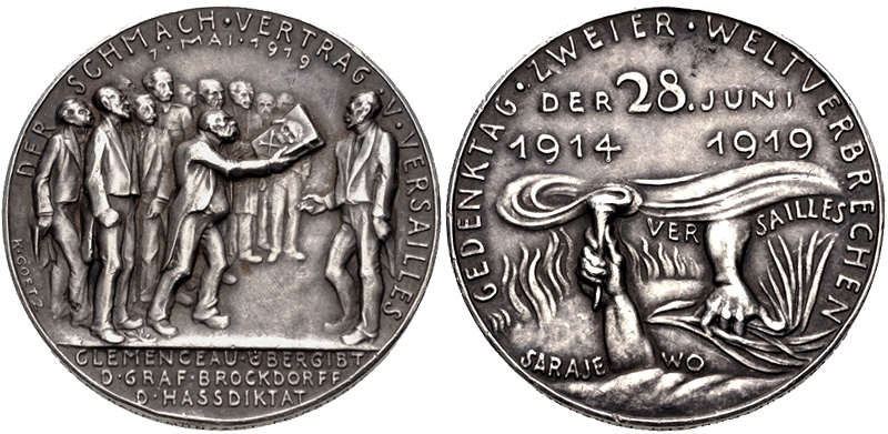 GERMANY, Weimarer Republik. 1918-1933. AR Medal (37mm, 19.91 g, 12h). On the 10th Anniversary of the Treaty of Versailles, 28 June 1919. By Karl Goetz. Undated, but struck 1929. DER SCHMACH · VERTRAG · V · VERSAILLES, Georges Clemenceau, standing right, presenting bound treaty, decorated with skull and crossbones to Ulrich von Brockdorff-Rantzau standing left; behind Clemenceau, other members of the Conference, including Lloyd-George, Wilson (with sprig of laurel at feet), and Orlando; 7 · MAI · 1919 above; CLEMENCEAU · ÜBERGIBT/D · GRAF · BROCKDORFF/D · HASSDIKTAT in two lines in exergue; K · GOETZ behind Lloyd-George / GEDENKENTAG · ZWEIER · WELTVERBRECHEN, hand to left, SARAJE WO at base, raising burning torch with earth on fire behind; hand to right, proceeding down from flames with VER SAILLES immediately below, extinguishing fire; DER 28. JUNI/ 1914 1919 in two lines above. Edge: BAYER. HAUPTMÜNZAMT · FEISILBER. Kienast 426. EF, toned, a couple of minor edge bumps.